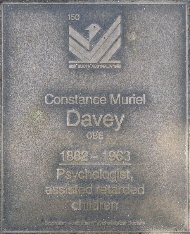 Jubilee 150 Walkway Plaque commemorating Constance Muriel Davey.